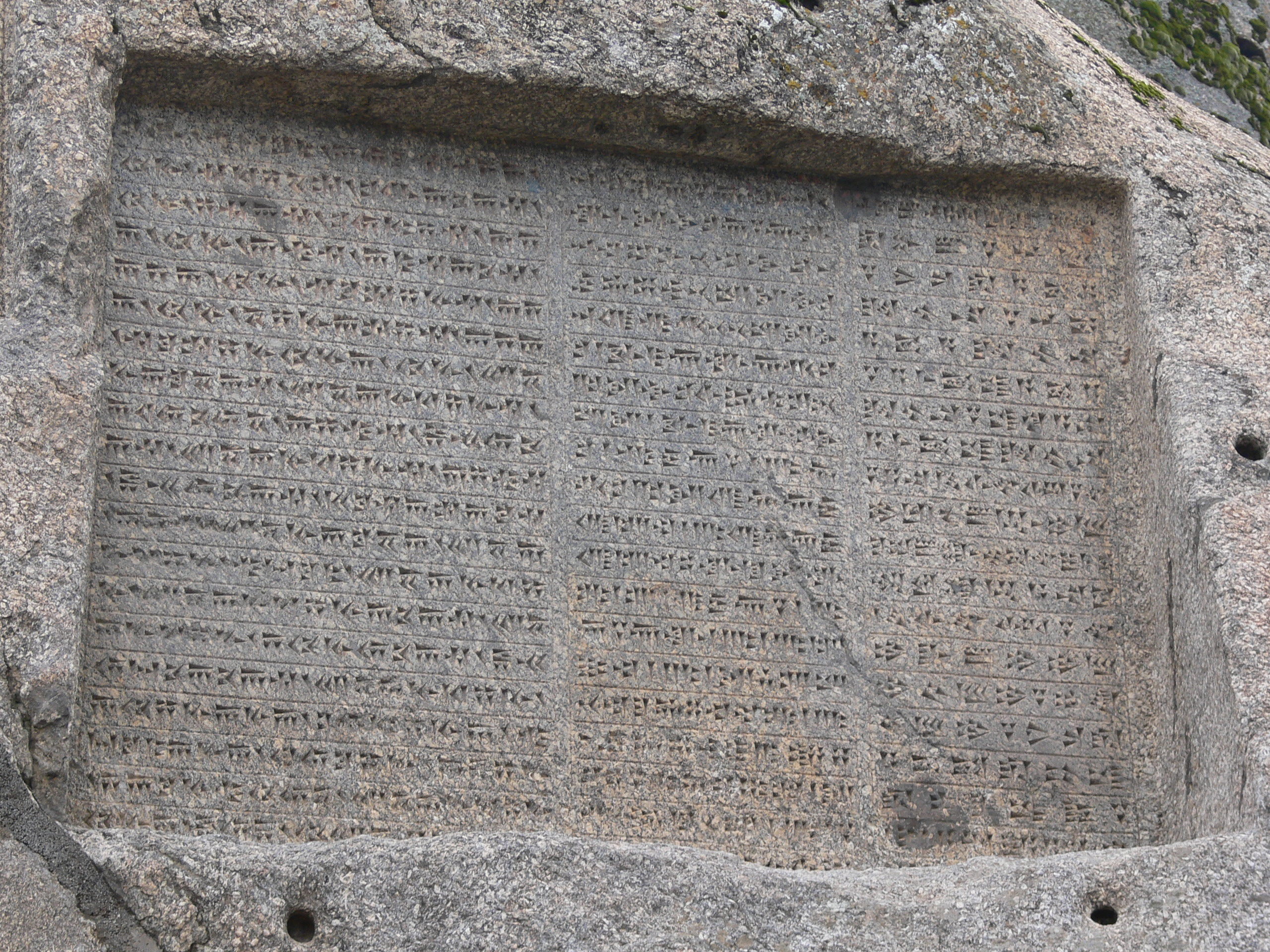 Photo of the Achaemenid Xerxes inscription Ganj Nameh near Hamadan (Iran)